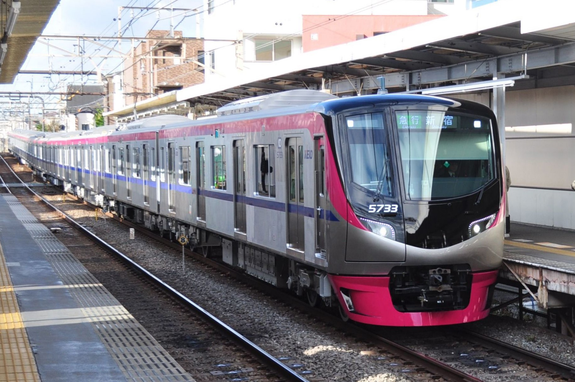 Keio 5000 series EMU set 5733 arriving at Meidamae Station on the Keio Line in Tokyo, Japan